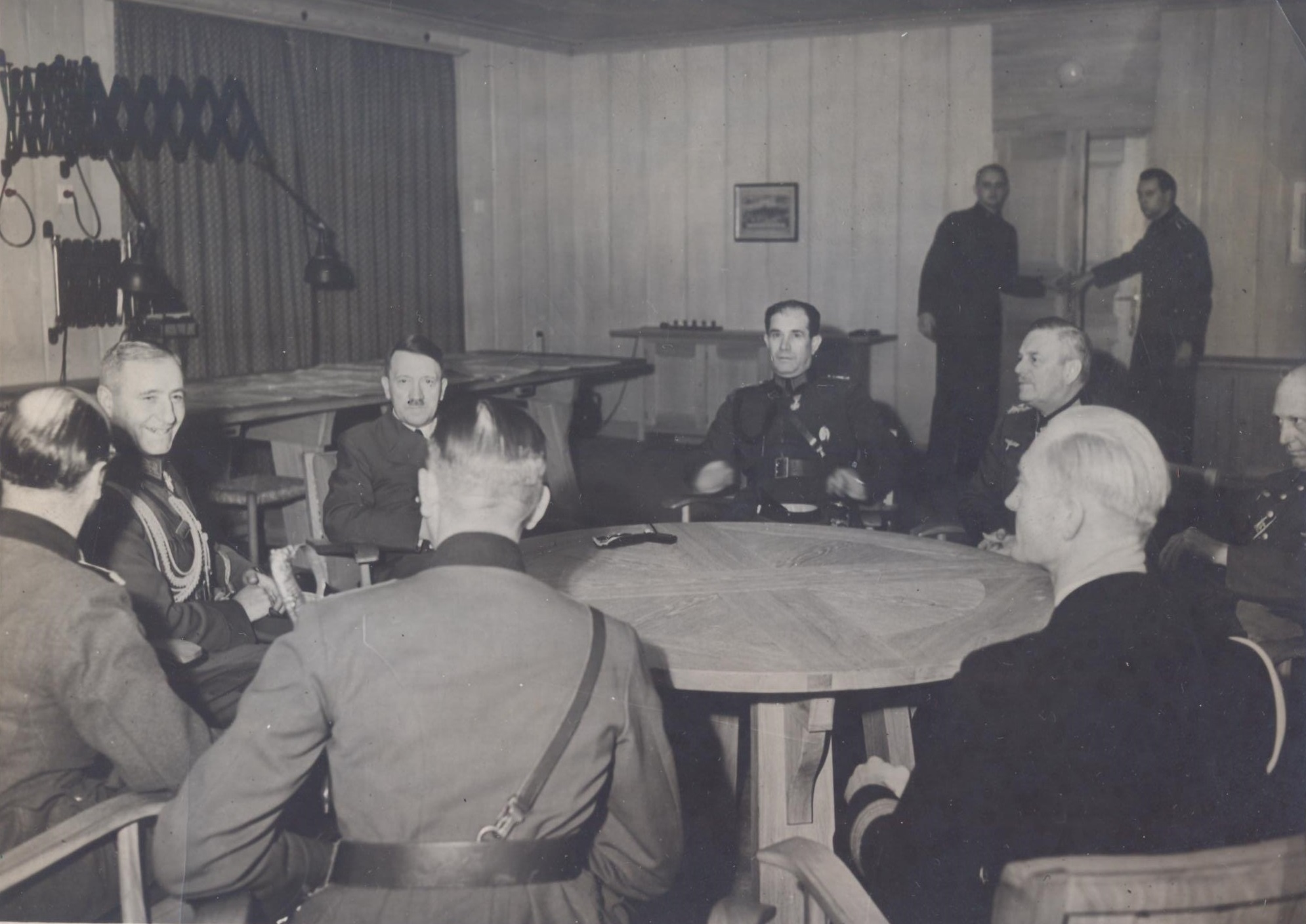 Nikola Mikhov, Adolf Hitler and Wilhelm Keitel, Berlin, 09.01.1943.